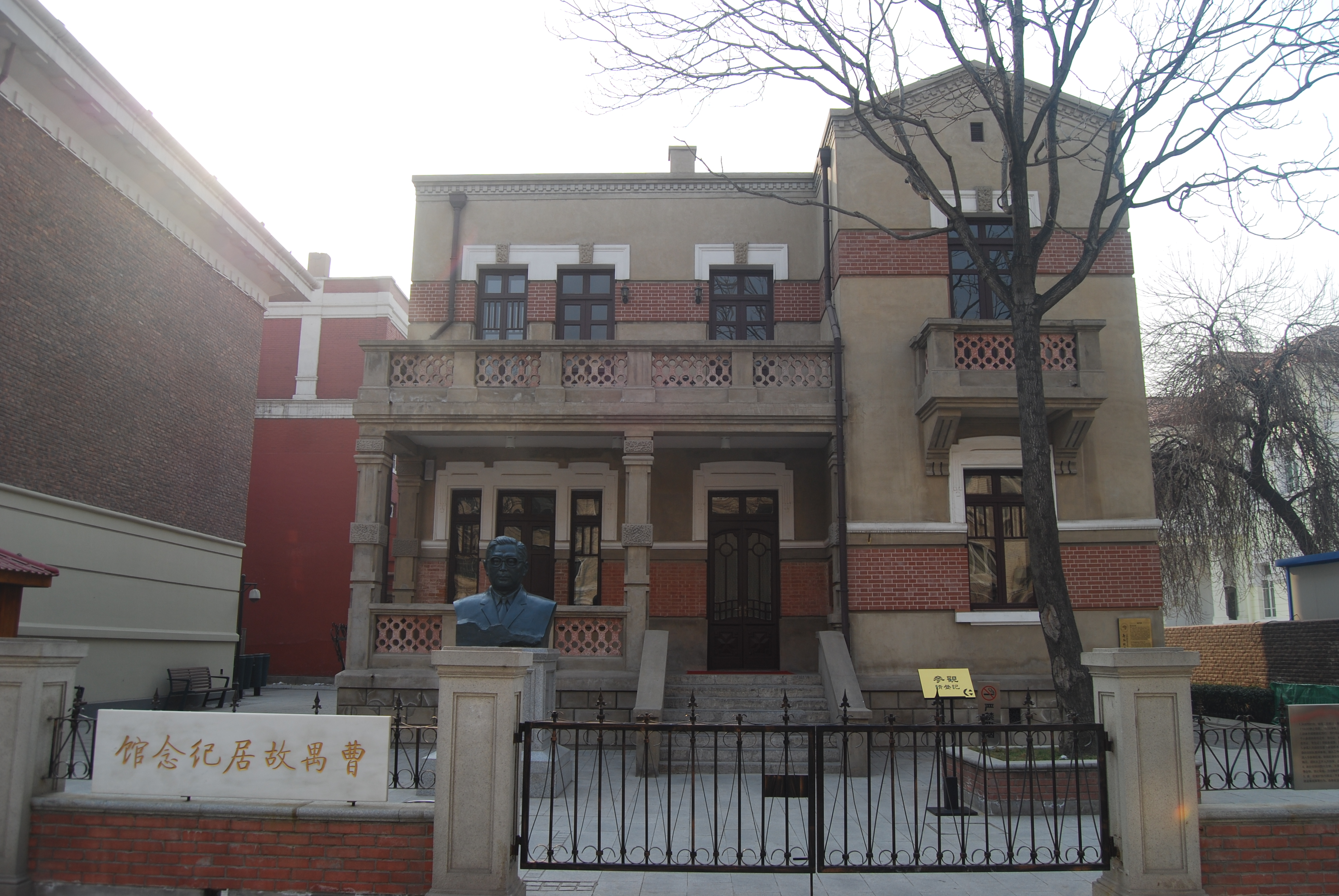 Former Residence of Cao Yu (1910–1966) in Minzhu Dao No. 23, Hebei District, Tianjin